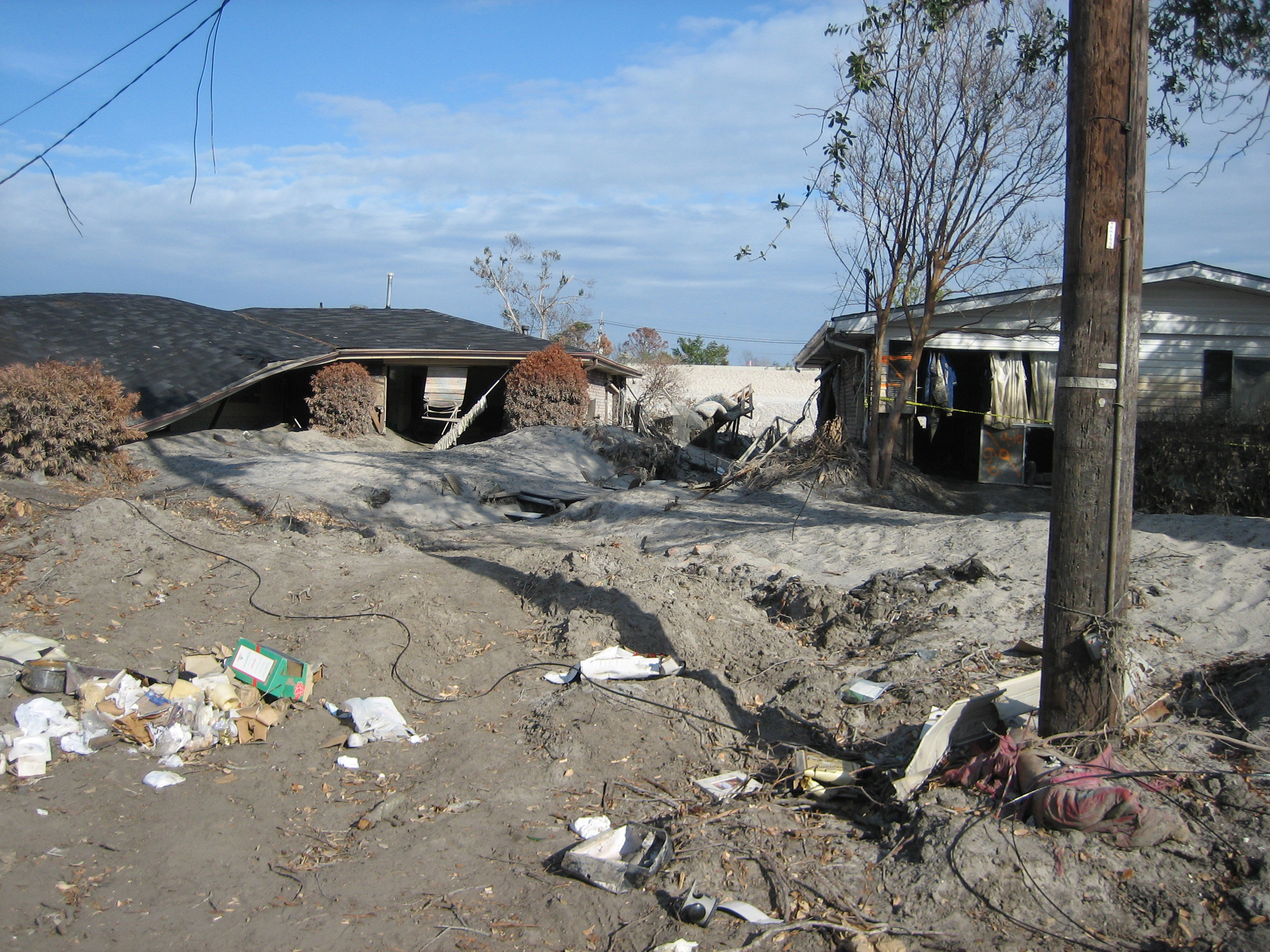 New Orleans after Hurricane Katrina: Houses on Pratt, with their back yards abutting the breech of the London Avenue Canal.